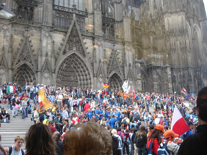 A view of the celebratory vibes outside the Cologne cathedral in Germany (2005). The participation of Catholics from so many countries marks for a renewed and collaborate spiritual understanding.